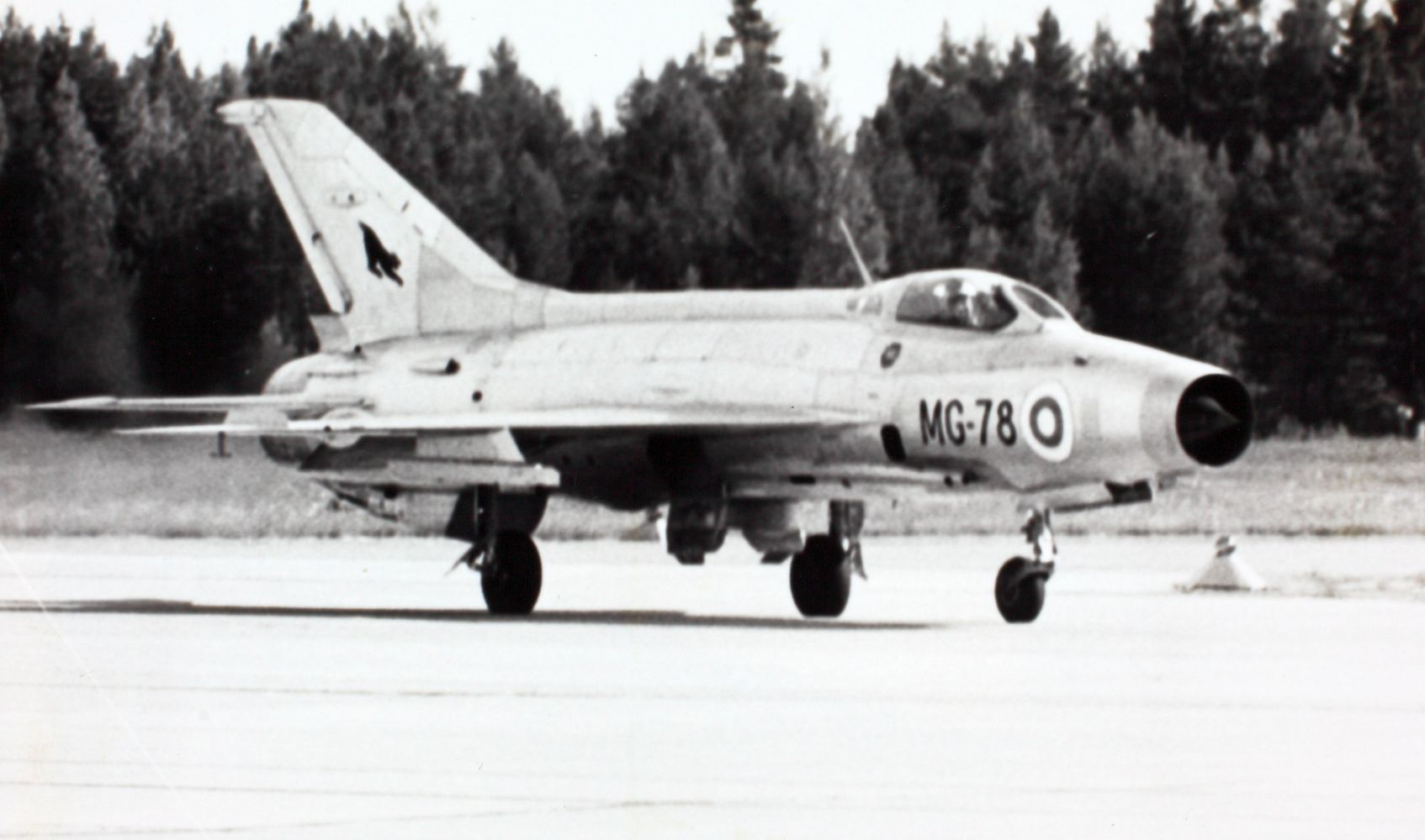 Catalog #: 15_002243 Title: Mikoyan-Gurevich Mig-21 Collection: Charles M. Daniels Collection Photo Album Name: Soviet Aircraft Page #: 37 Tags: Soviet Aircraft, Charles Daniels, PUBLIC COMMONS.SOURCE INSTITUTION: San Diego Air and Space Museum Archive